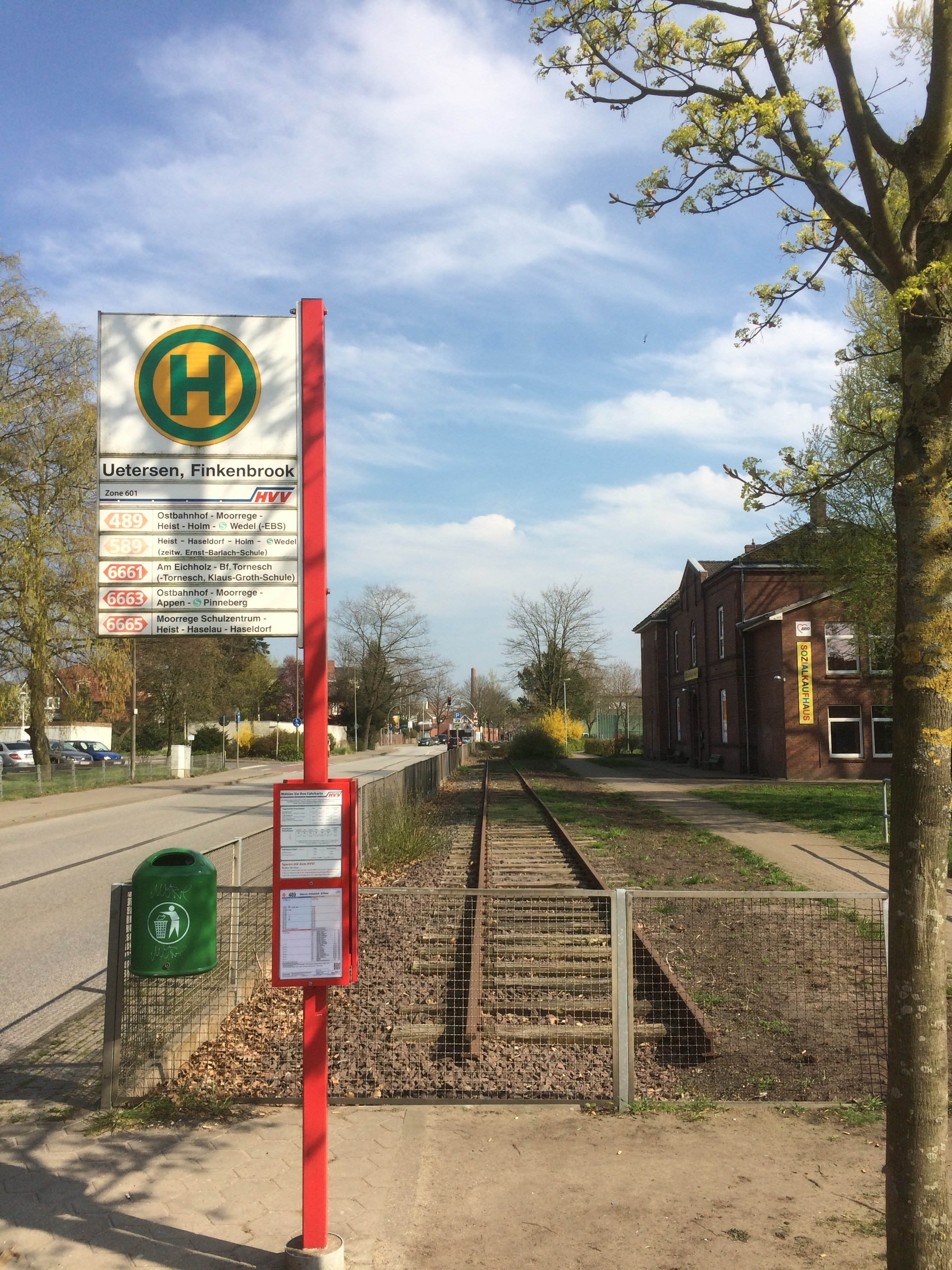 end of tracks (October 2019) of Uetersener Eisenbahn